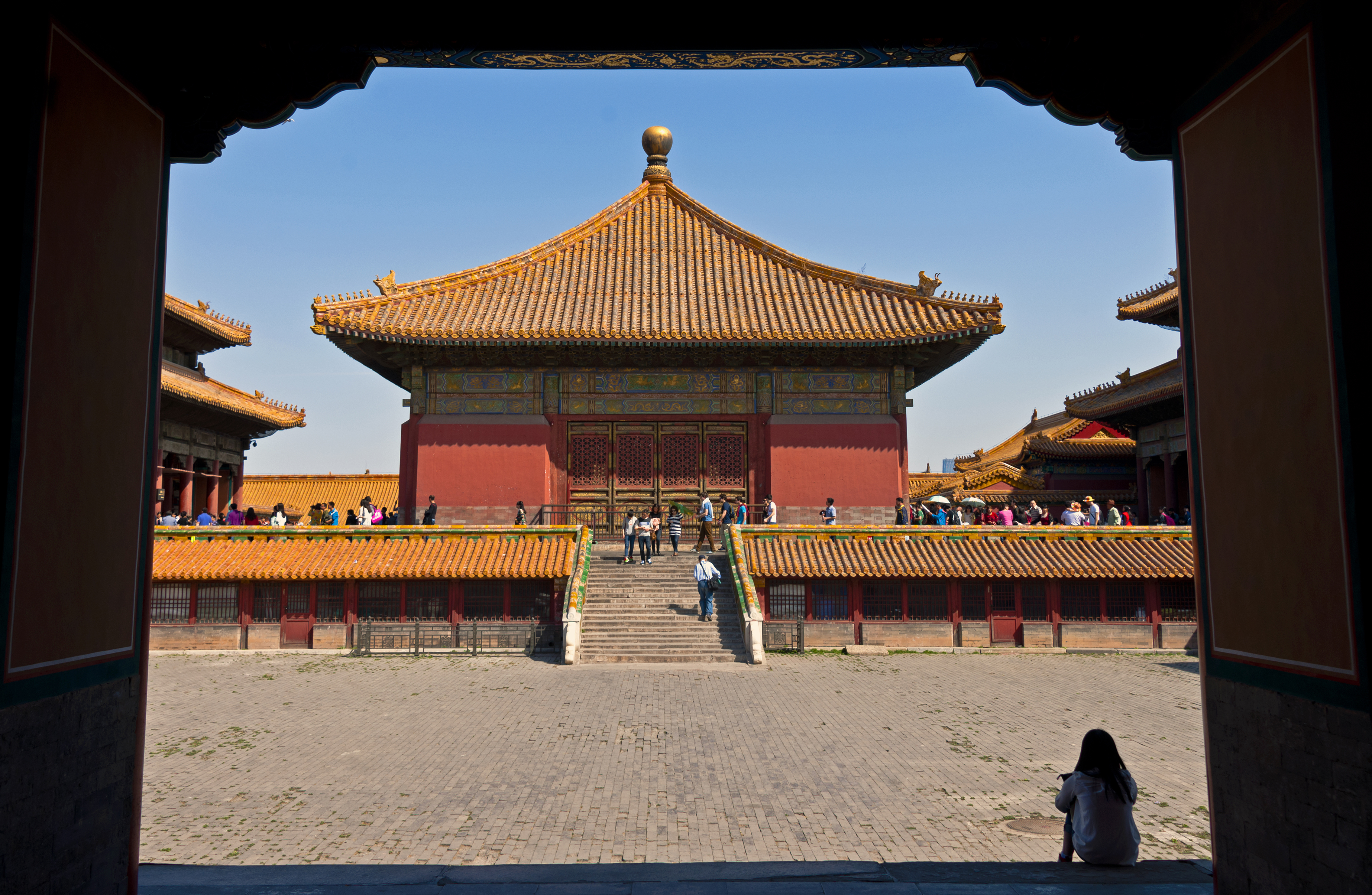 View through a doorway at a building in the Inner Court of the Forbidden City, Beijing.